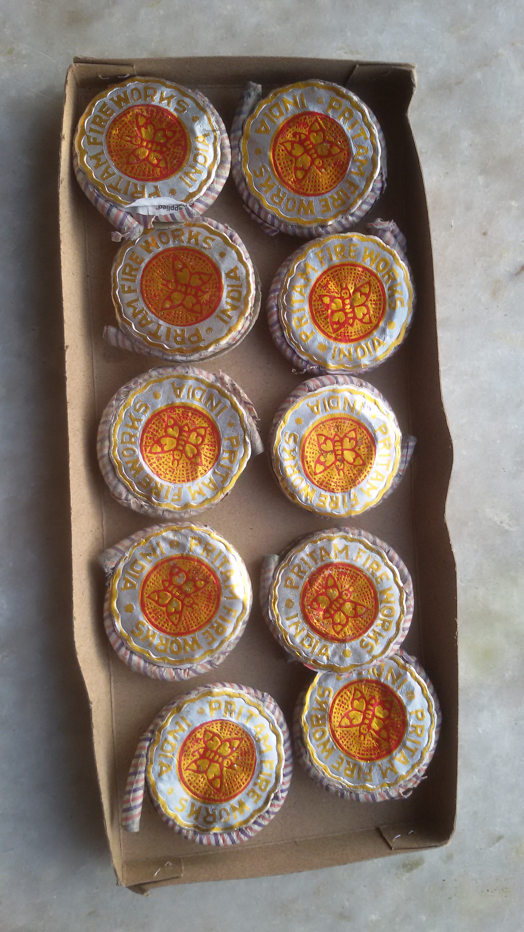 Photograph of charkis, a popular firework of West Bengal.